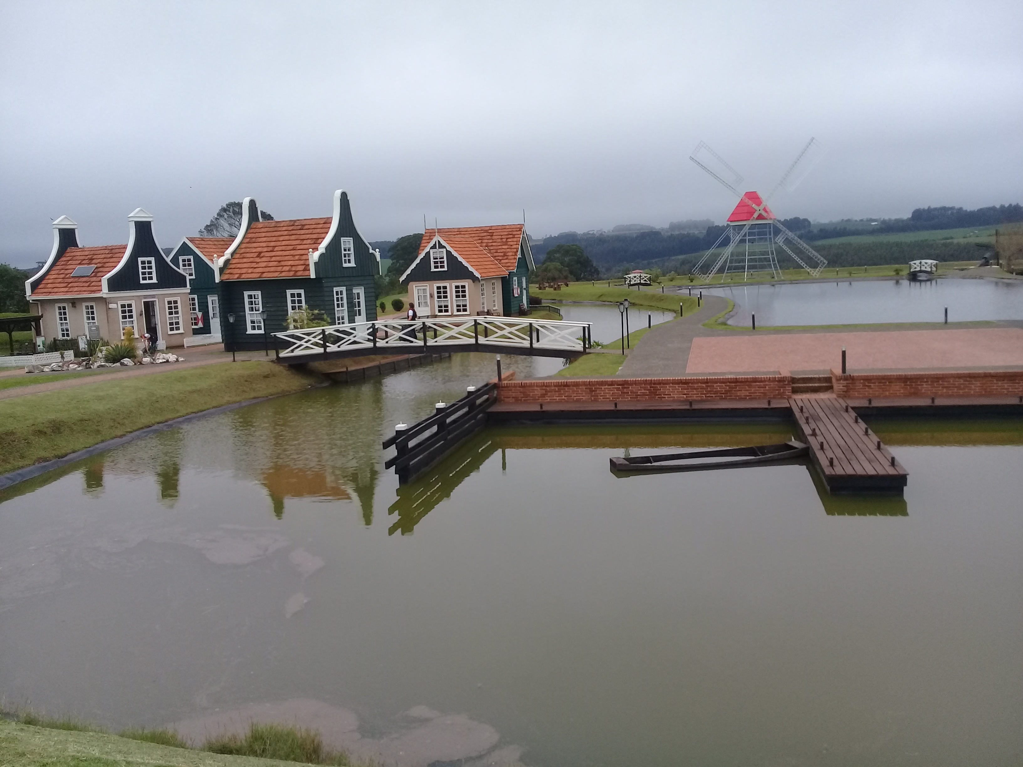 Historical Park of Carambeí with the view of the park mill and typical houses